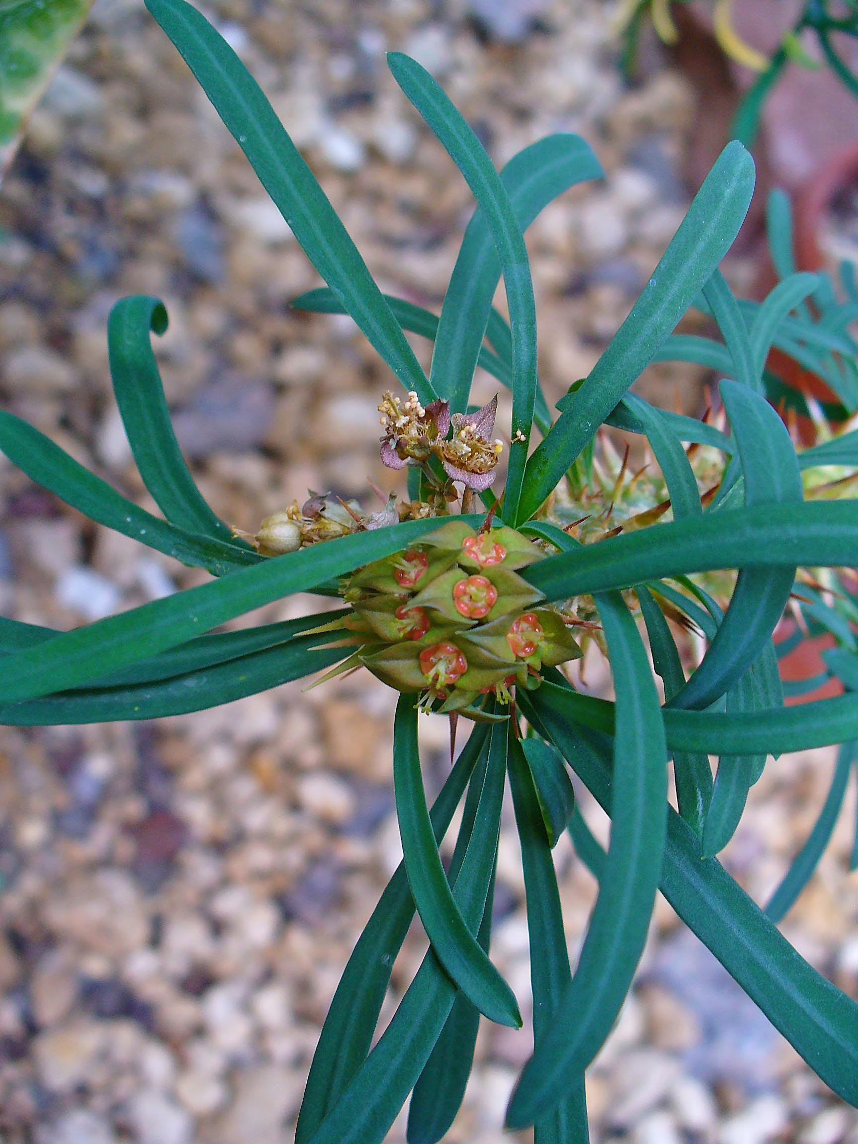 Euphorbia didiereoides, Euphorbiaceae, flowers; Botanical Garden KIT, Karlsruhe, Germany.